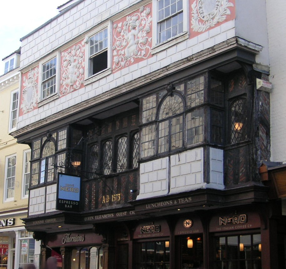 Canterbury, England. For a small commercial building this one is rare in the degree that it reveals its architectural history. The ground floor is probably medieval and may be as early as 13th century but its street-front is late Victorian and 20th century with 19th and 20th Century glass. The abutting first floor containing Queen Elizabeth I's chamber is dated 1573 and retains most of its original oak timbering, Tudor style window openings with depressed arches and brick infill. Some of the glass is probably Tudor. The jutting bay windows appear to date from about 1670. The glass is almost entirely original. The upper floor with its elaborate pargetting of "vintaging putti" (cherubs and grapevines) also dates from the late 1600s and has Georgian sash windows.